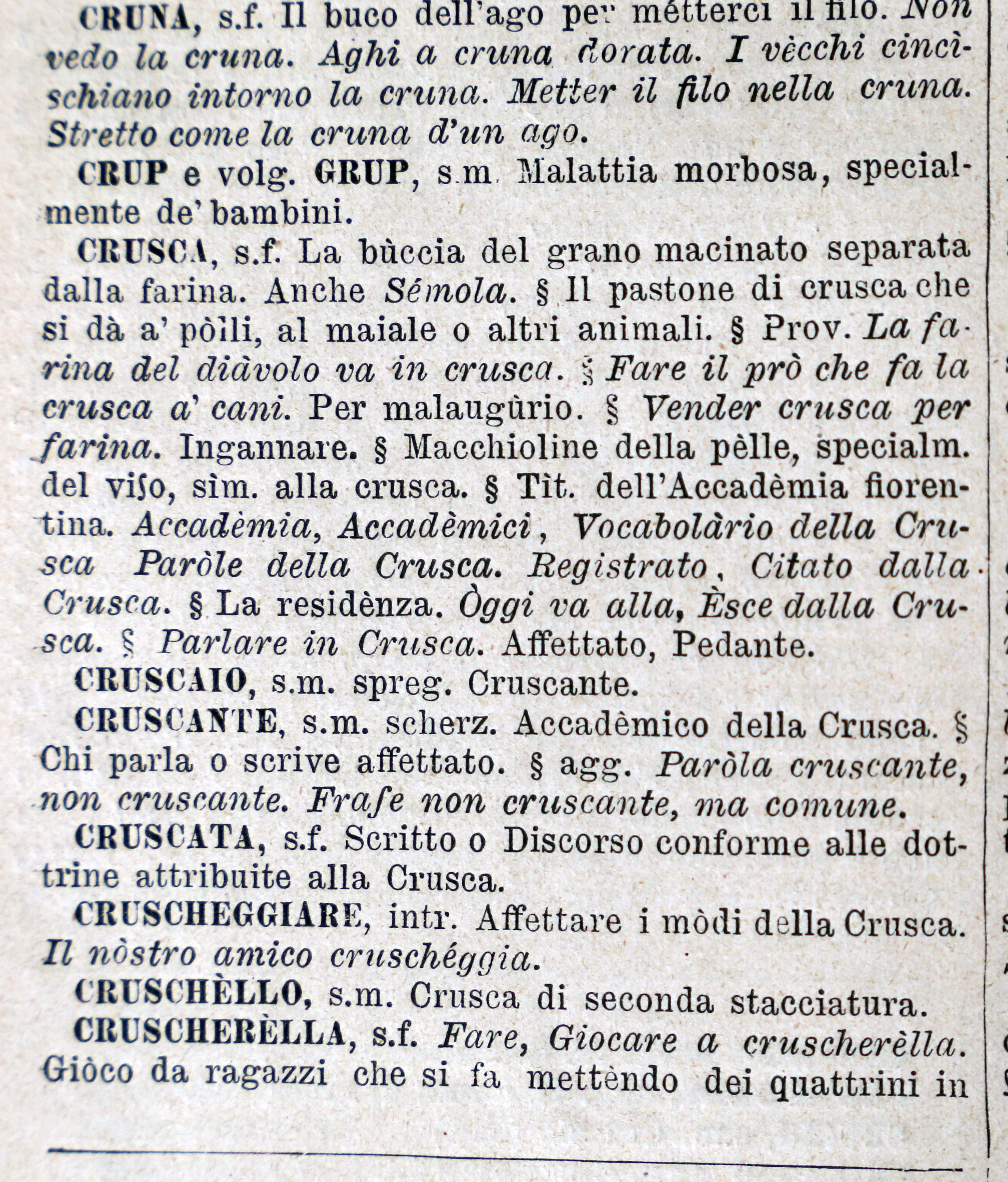 Accademia della Crusca Library